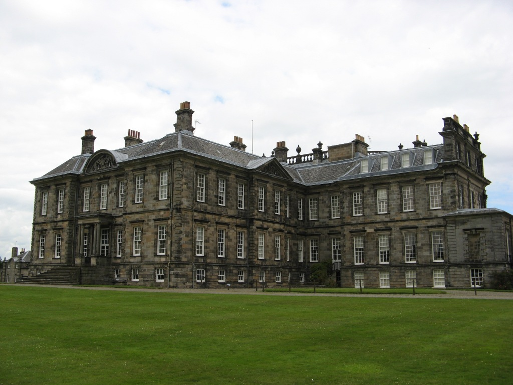 Hopetoun House, near South Queensferry, Scotland. Detail of west or garden front, designed by Sir William Bruce.